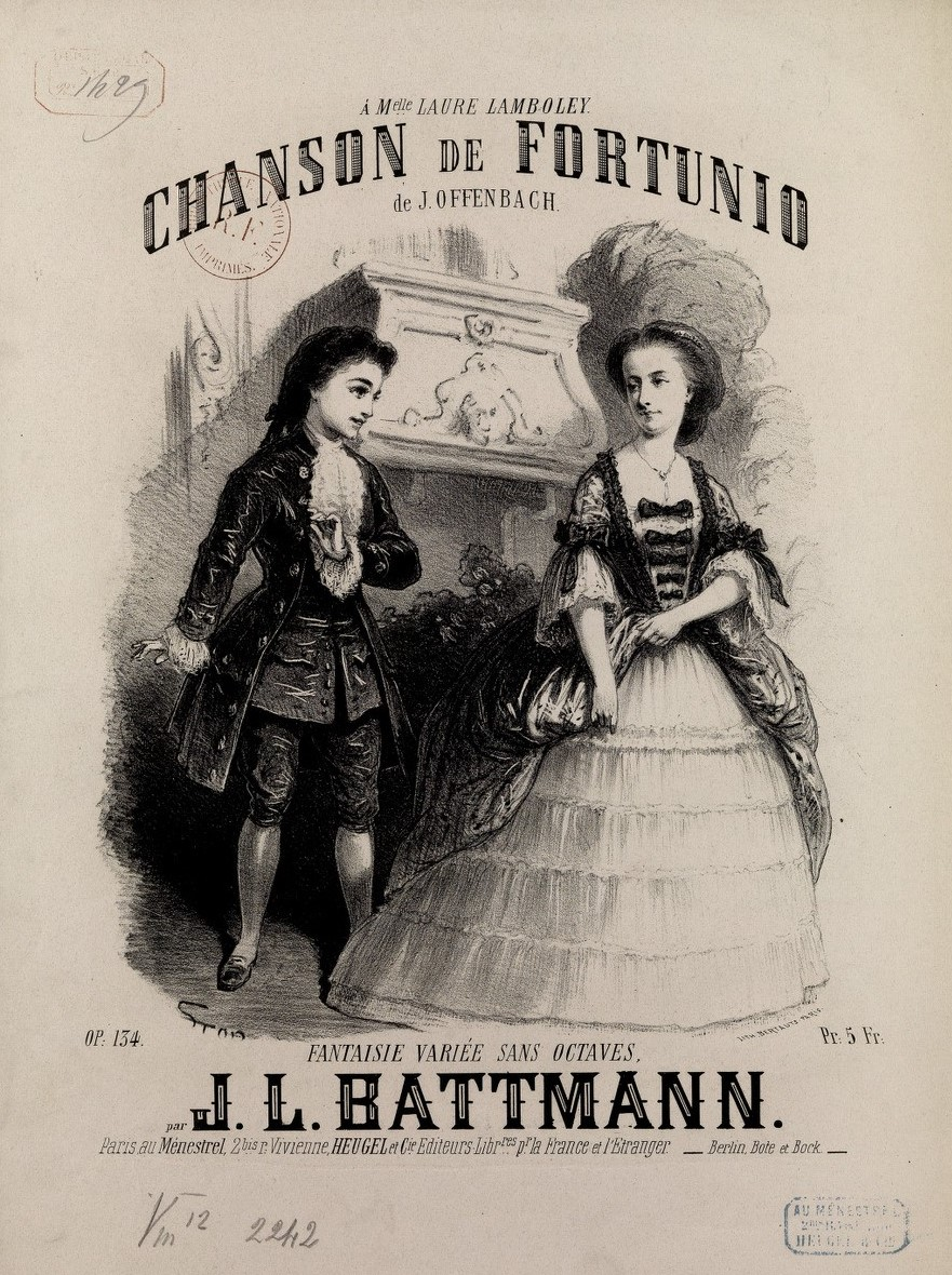 Chanson de Fortunio by Jacques Offenbach, from the eponymous opéra-comique, arr. as fantasie variée by Jacques-Louis Battmann, title page of partition with an engraving by Stop representing Julia Zoé Pfotzer as Valentin and Marguerite Chabert as Laurette